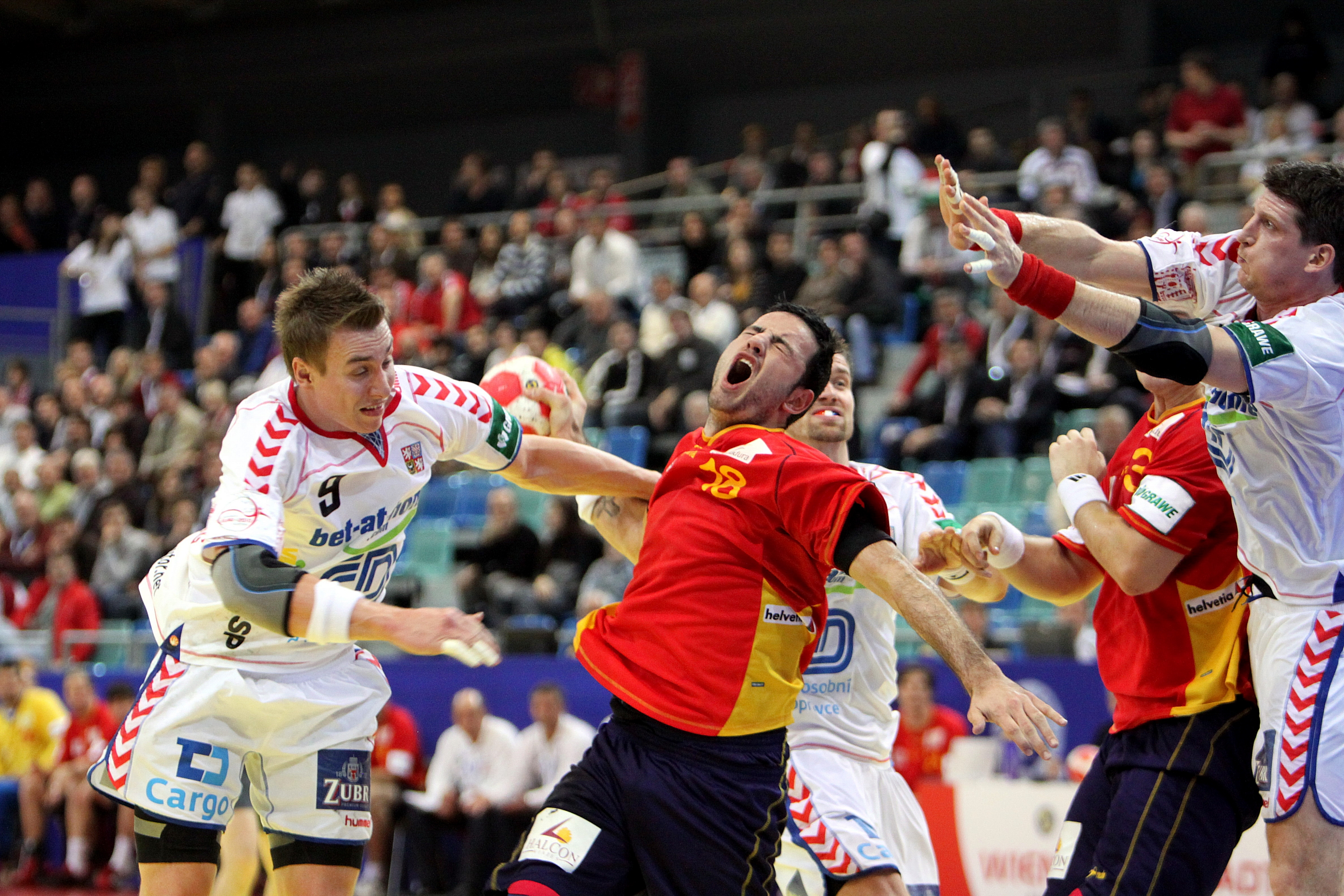 2010 European Men's Handball Championship Group D: Spain vs Czech Republic 37:25 — Iker Romero (red shirt, Spain national handball team) stopped by Filip Jicha (left, Czech Republic national handball team)